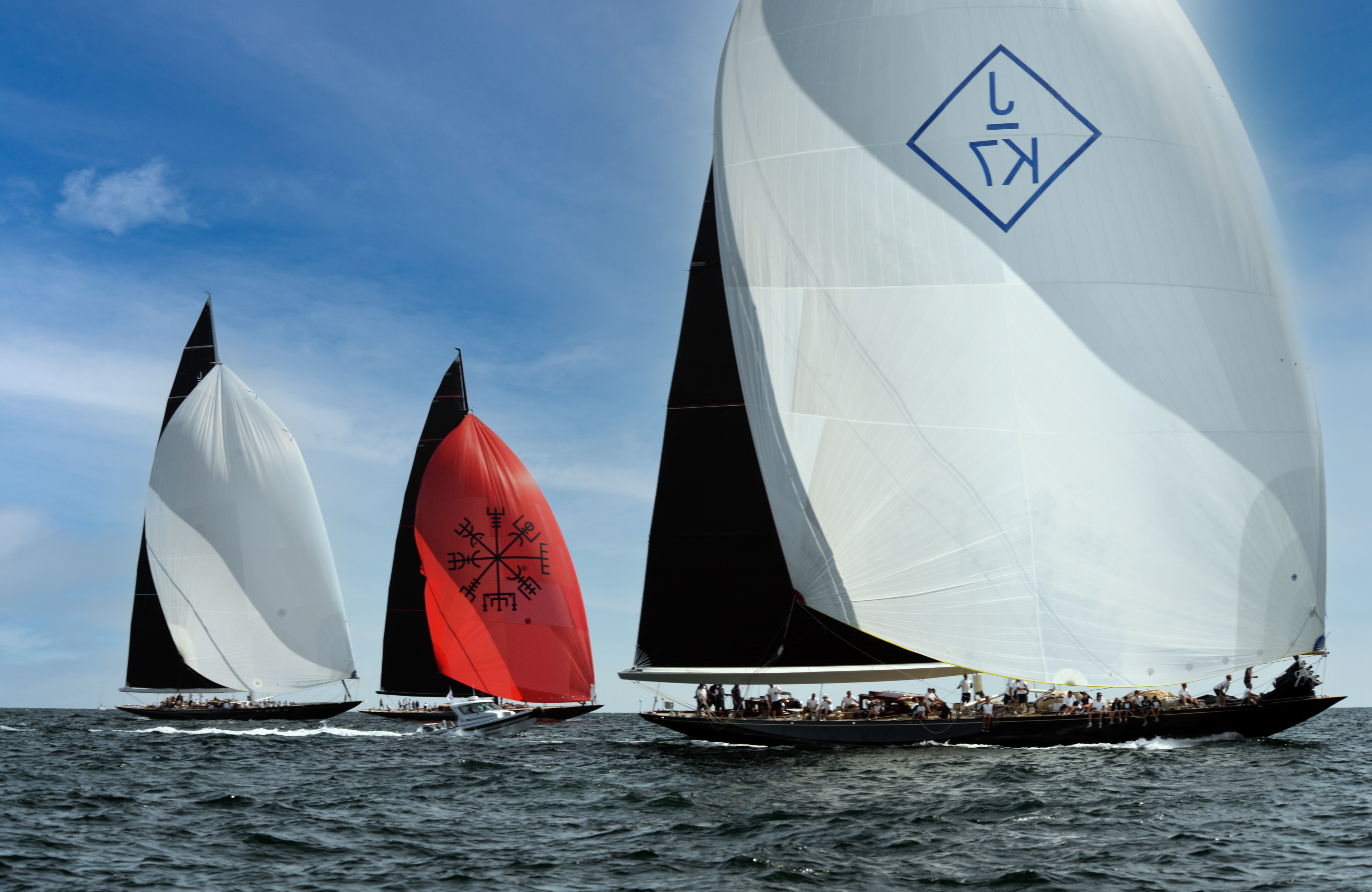 J Class Yachts Velsheda, Topaz and Svea downwind leg. Race 7 J Class worlds, Newport Rhode Island by Don Ramey Logan